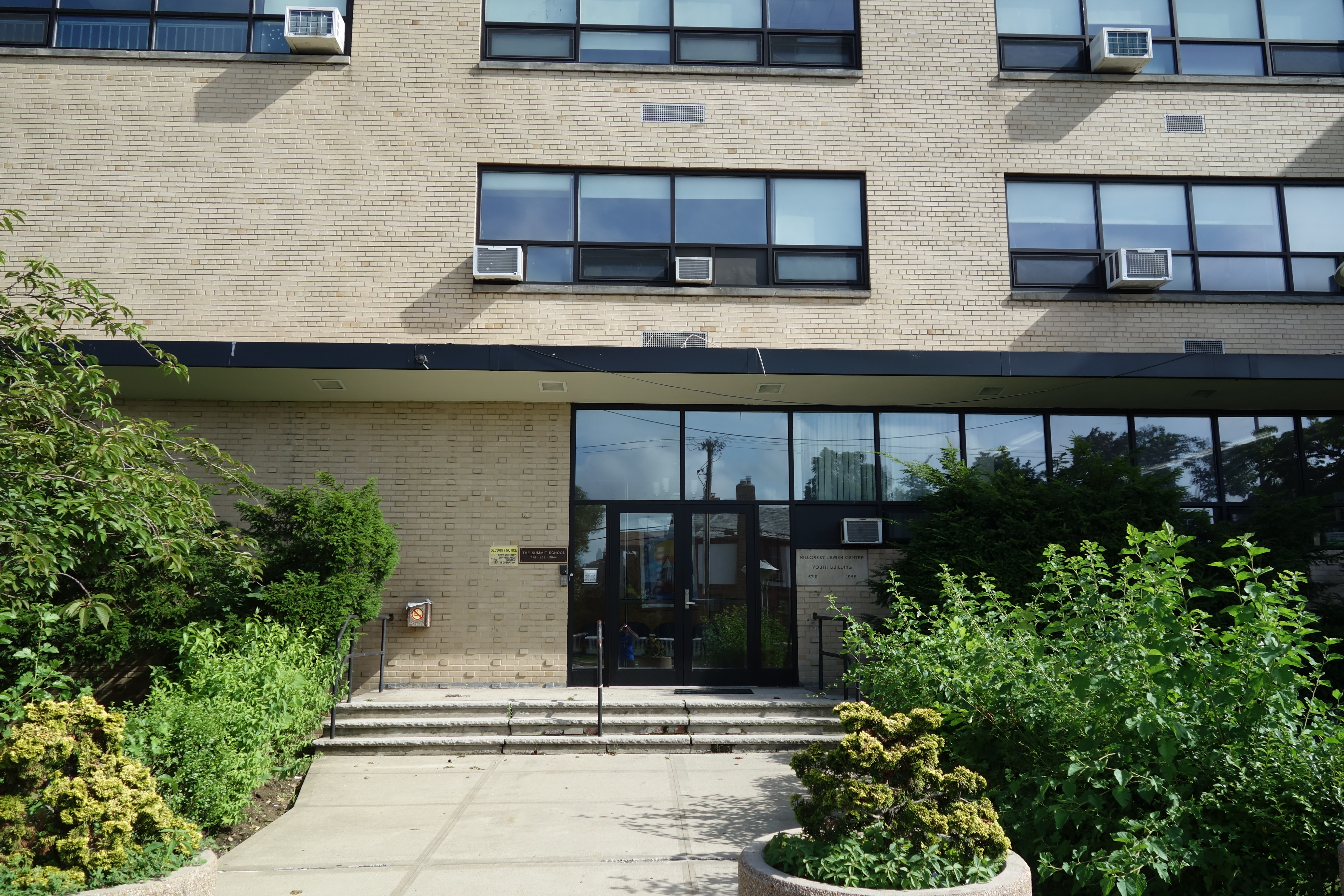 The entrance to Summit's Lower School at the Hillcrest Jewish Center located on the corner of Union Turnpike and 184th Street in the Utopia subsection of Fresh Meadows, Queens.